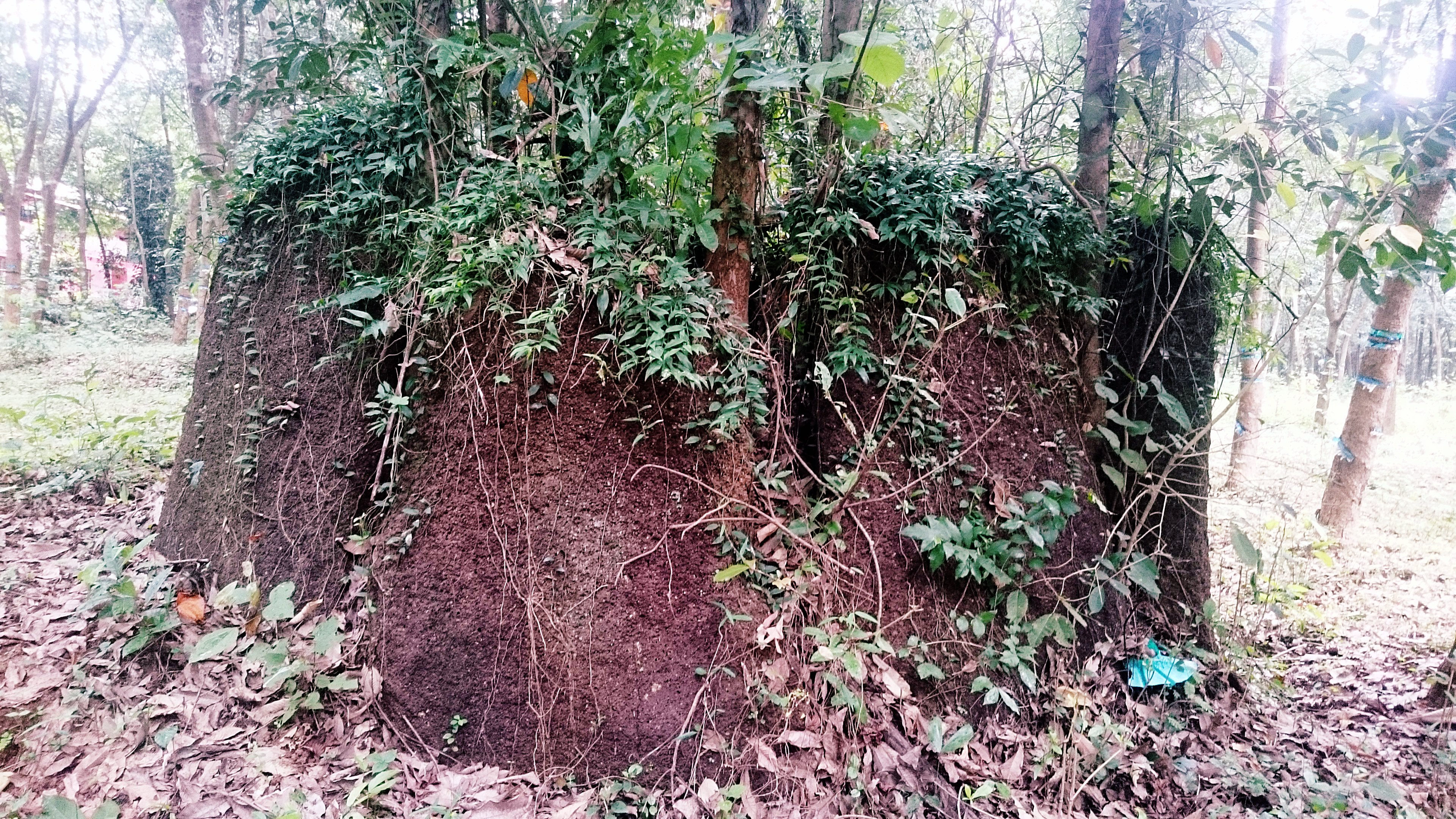 Nannangadikal, (Urn burials) found in Ottapalam, Palakad